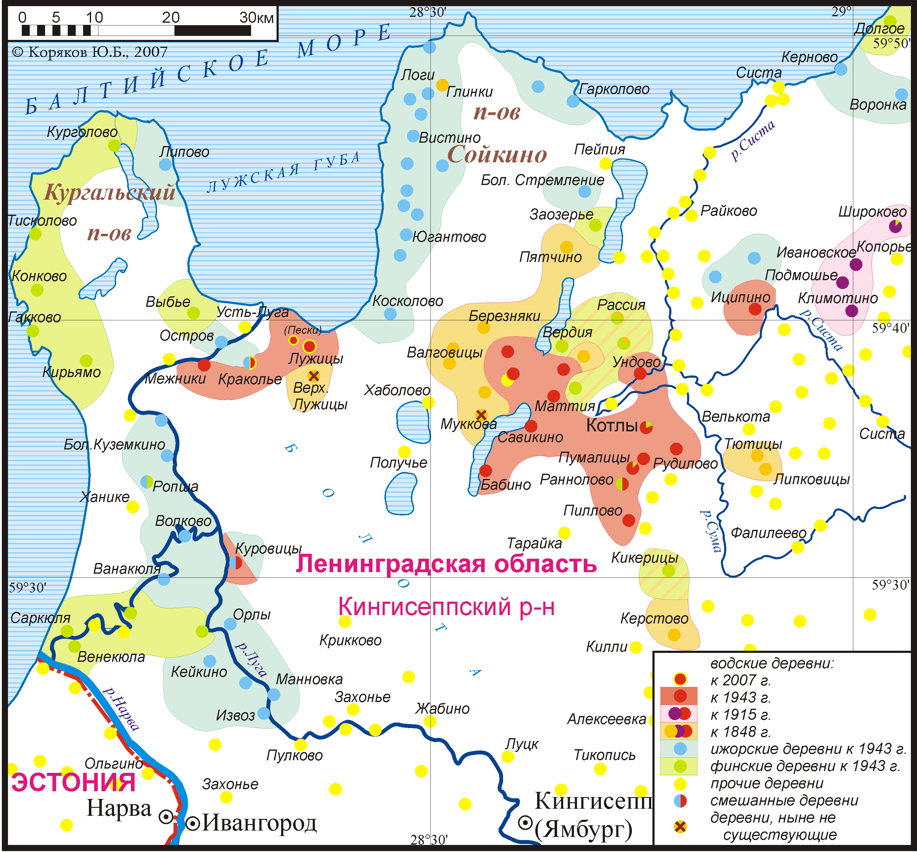 Finnic settlements in Western Ingria throughout the 20th century. A map of Votic and neighbouring Ingrian-Finnish and Izhorian villages 1848-2007.